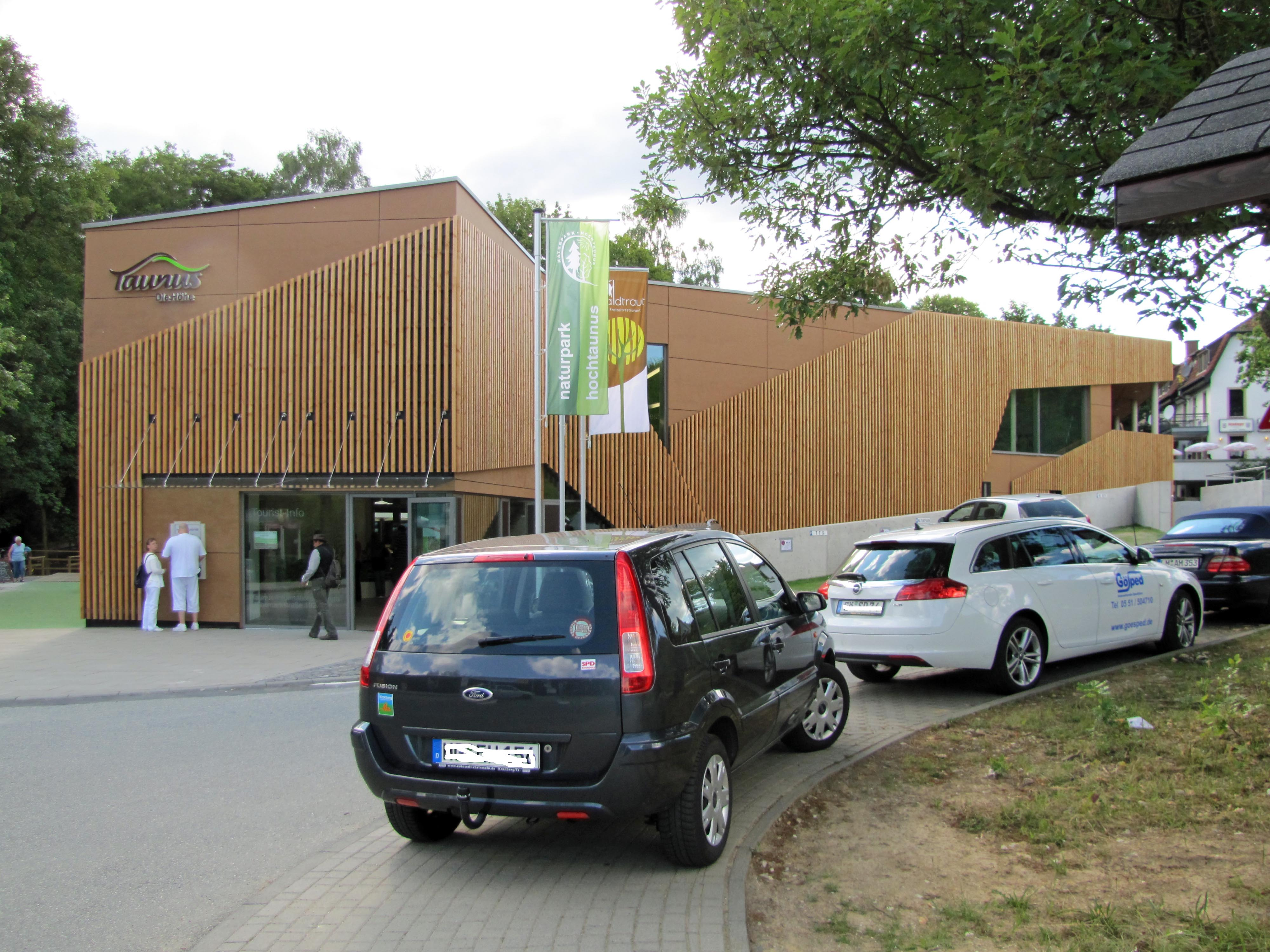 "Taunus-Informationszenter" (frontside) at Oberursel, Hochtaunuskreis, Germany.